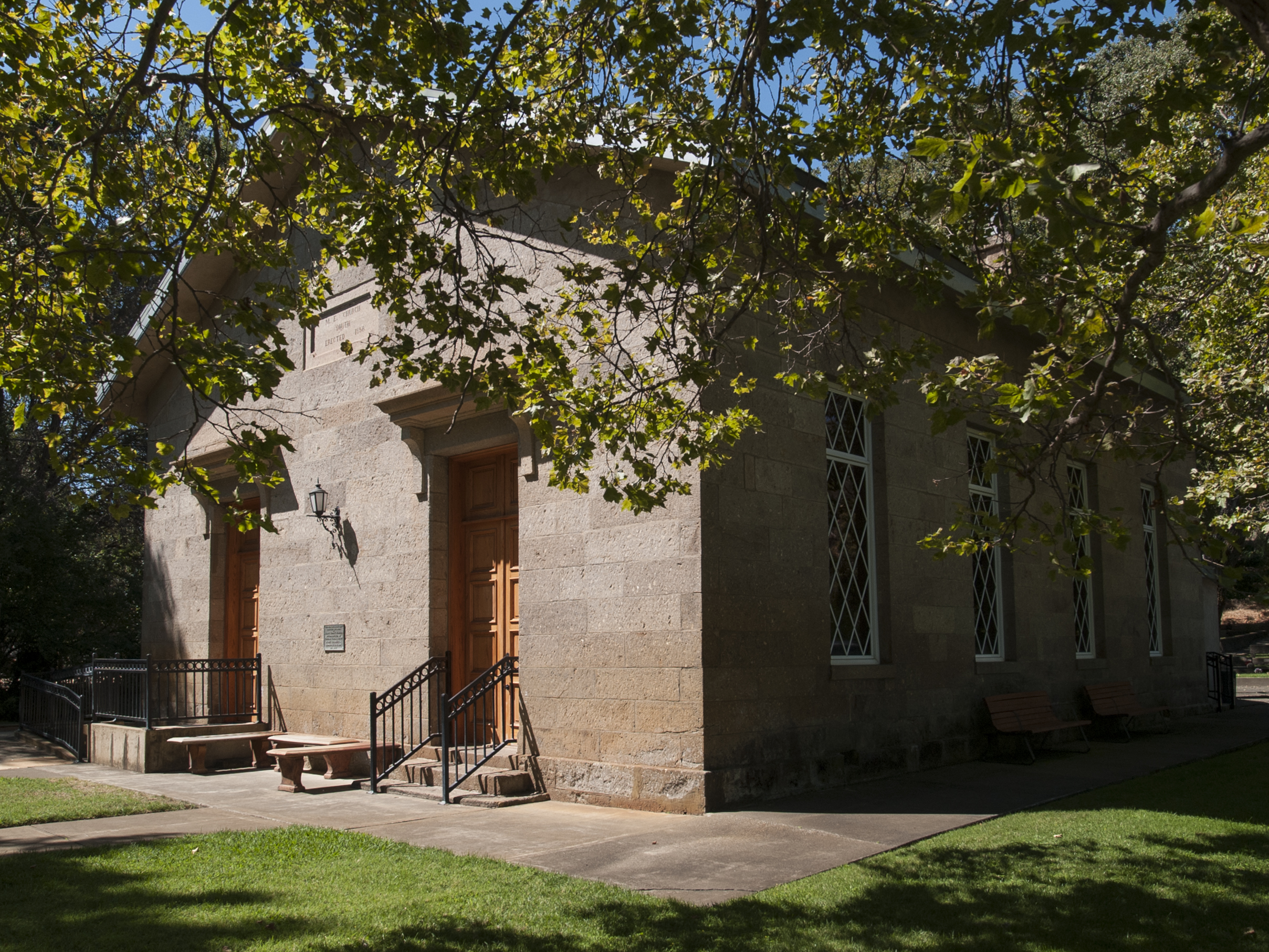 California Historical Landmarks listing Solano County 779 Rockville Stone Chapel Described as "A tiny rock-walled church among great brooding trees that spread green arms around it and raise still heads above it as though in wordless prayer", the Rockville Stone Chapel came to life as an idea in 1855 and was funded and erected by members of the Methodist Episcopal Church South. Building started October 3, 1856 with the formal dedication in February 1857. Following the Civil War membership in the church declined, as well as the building. In 1929 the building was donated to Solano County in the hope that the county could restore and maintain it. The Depression of the 1930s delayed the work until 1940 when with sponsorship by the Board of Supervisors and materials and labor from the W.P.A., the chapel was restored and rededicated on Memorial Day, 1940. It continues to be actively used to this day (2019). Reference